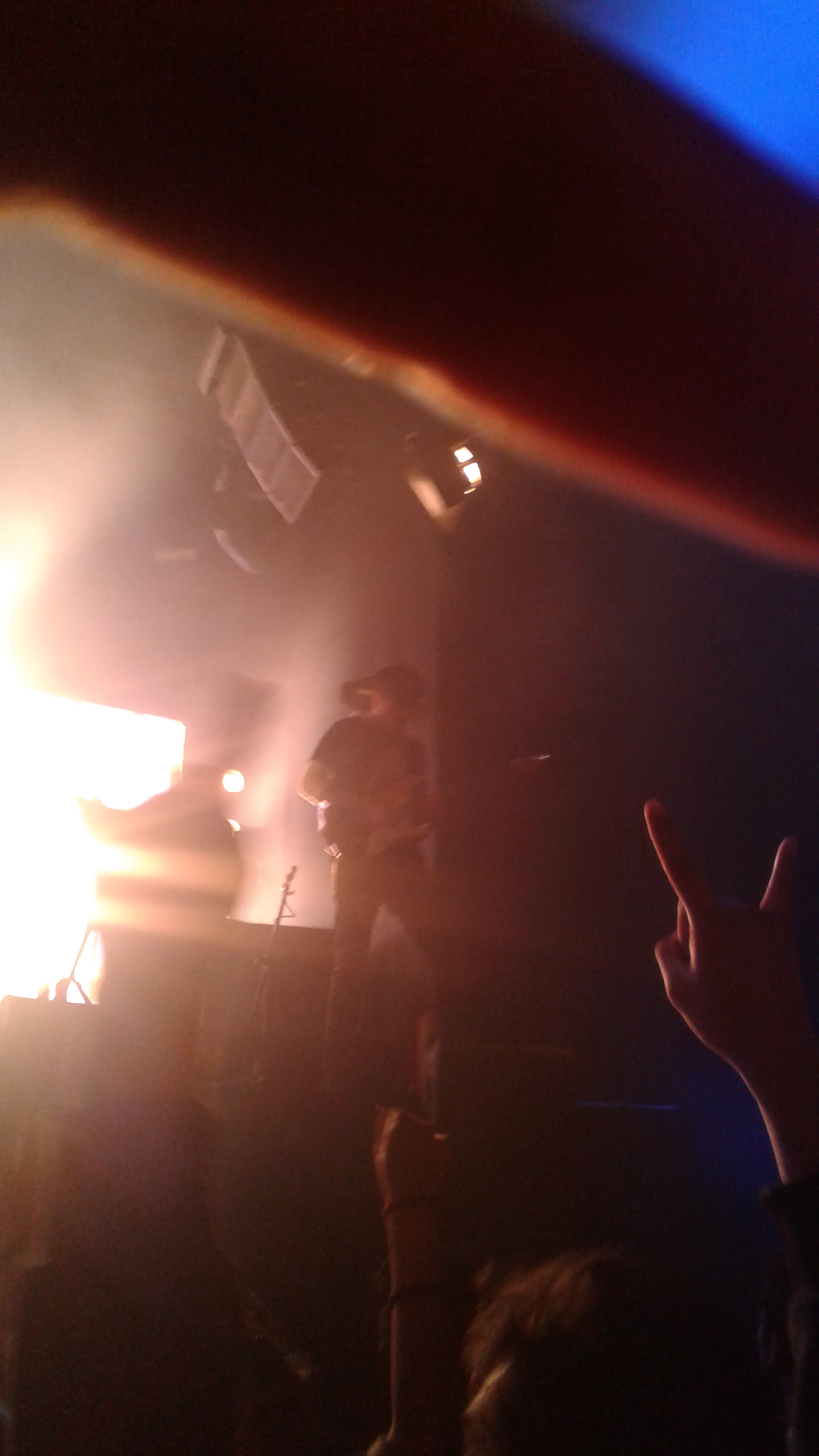 Nicolás Duarte ft. Cuchillazo in live concert, bad photography.